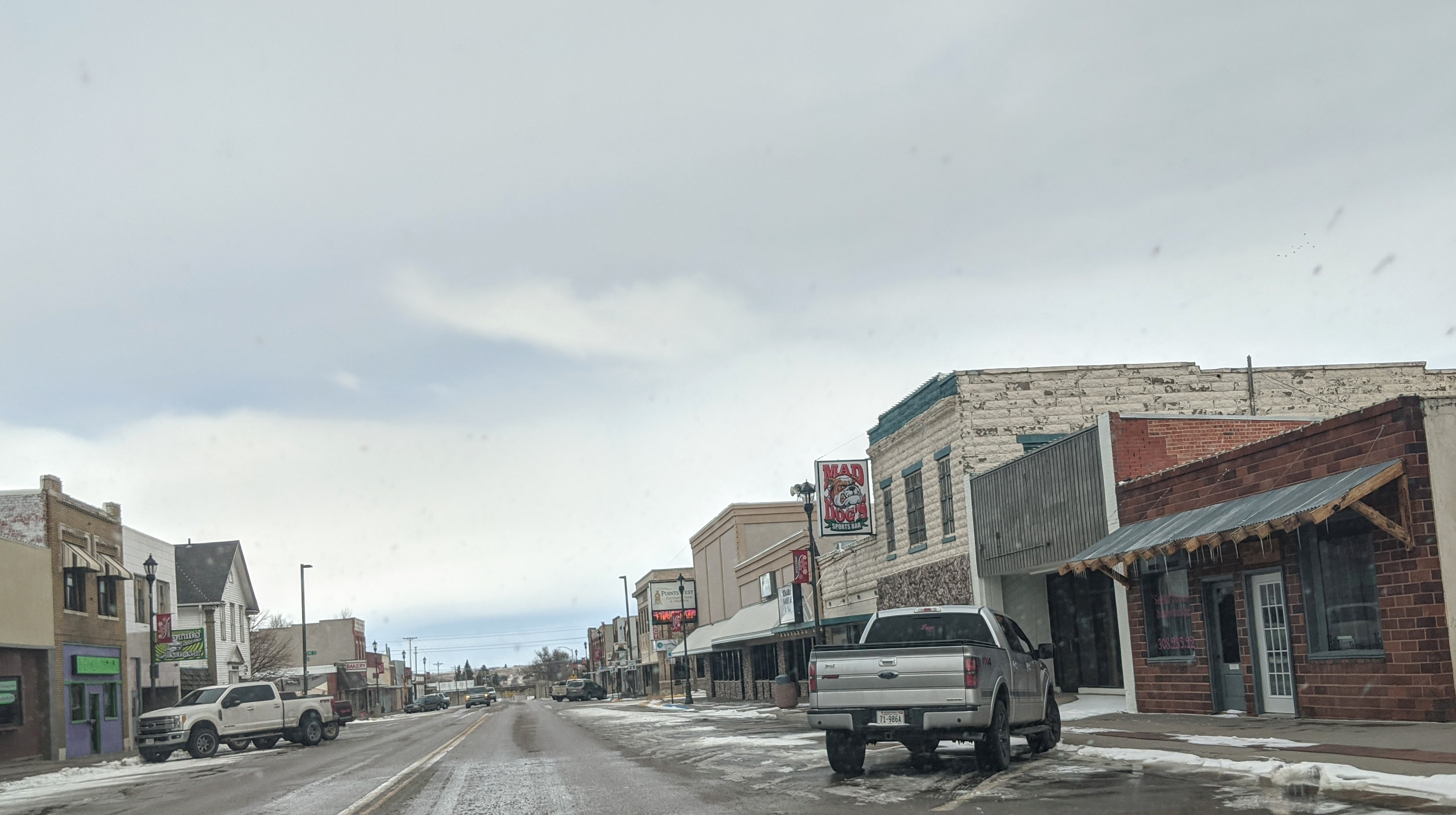 Downtown Kimball, Nebraska